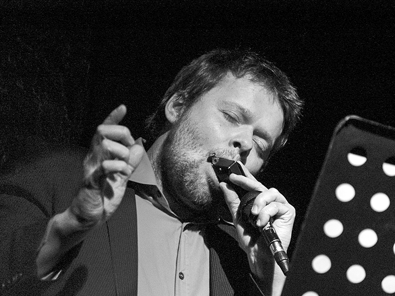 Jacob Venndt 2011